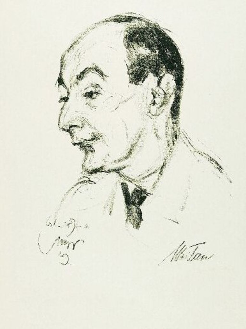 The portrait of Max Tau, German writer by Emil Stumpp, lithograph, Berlin, 1929, 49,9 x 35,4 cm; Deutsches Historisches Museum, Berlin GR 64/185.